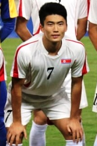 Han Kwang-song for North Korea in the 2022 WC qualifier match against Lebanon.